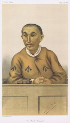 Caricature of Harry Benson. Caption read "the Turf Frauds".